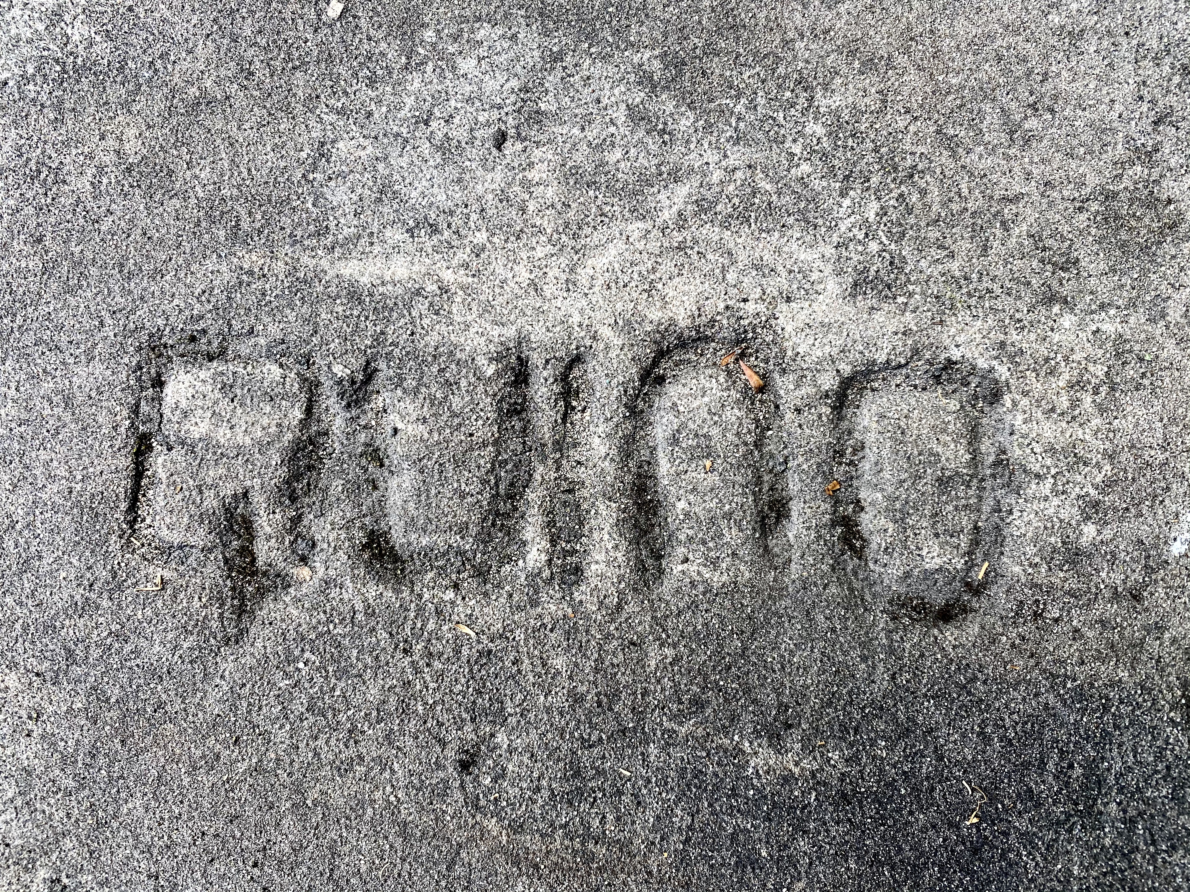 Equino carving in latin close to the horse carving near information post 10.